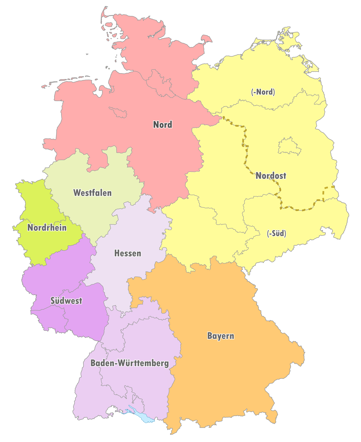 Map of German sub-regional soccer league, 2004-08